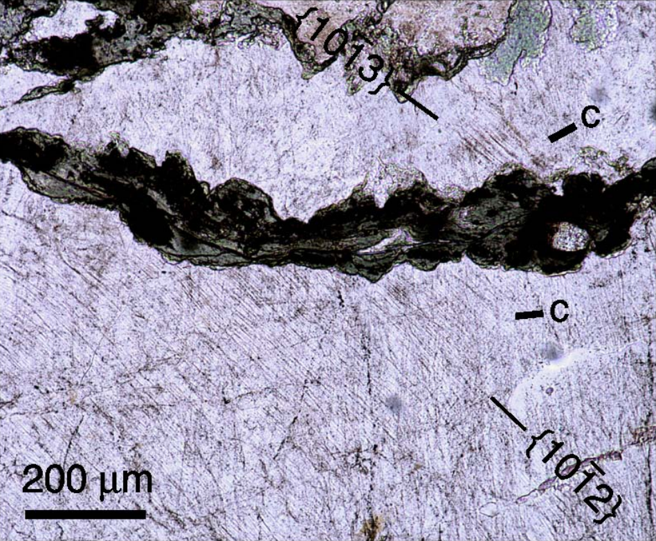 A photomicrograph of the granitic rock near the Bloody Creek crater. The parallel lines throughout the thin section indicate that shock metamorphism has taken place. These features are only found in rocks deformed by impact events.